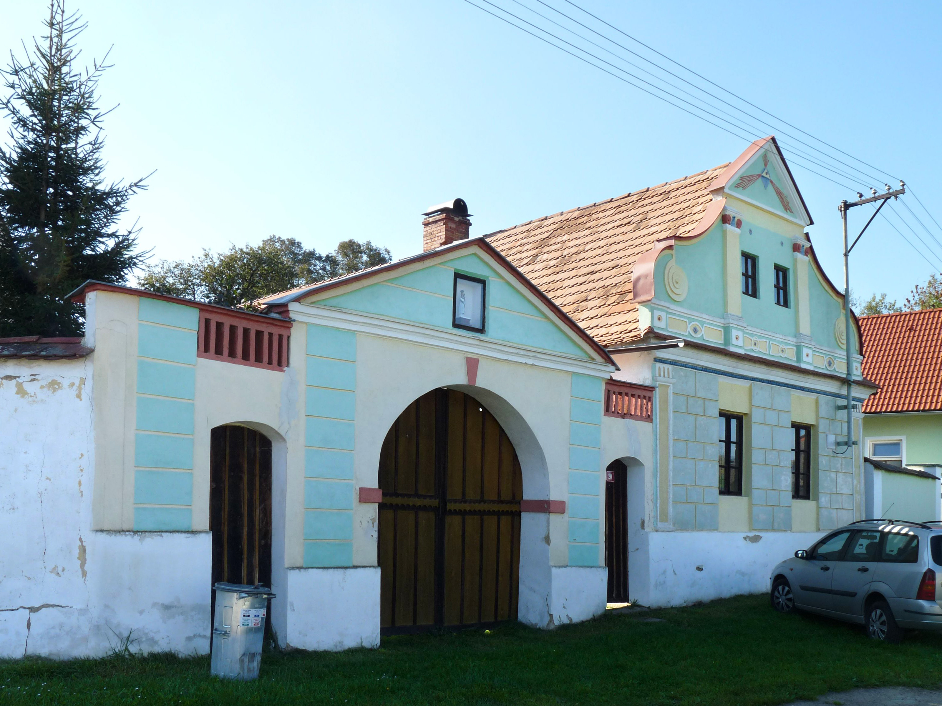 House No 20 in the village of Záblatí (part of the municipality of Dříteň), České Budějovice District, South Bohemian Region, Czech Republic.